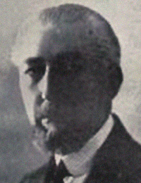 Carlos Balmaceda Saavedra (Chile).